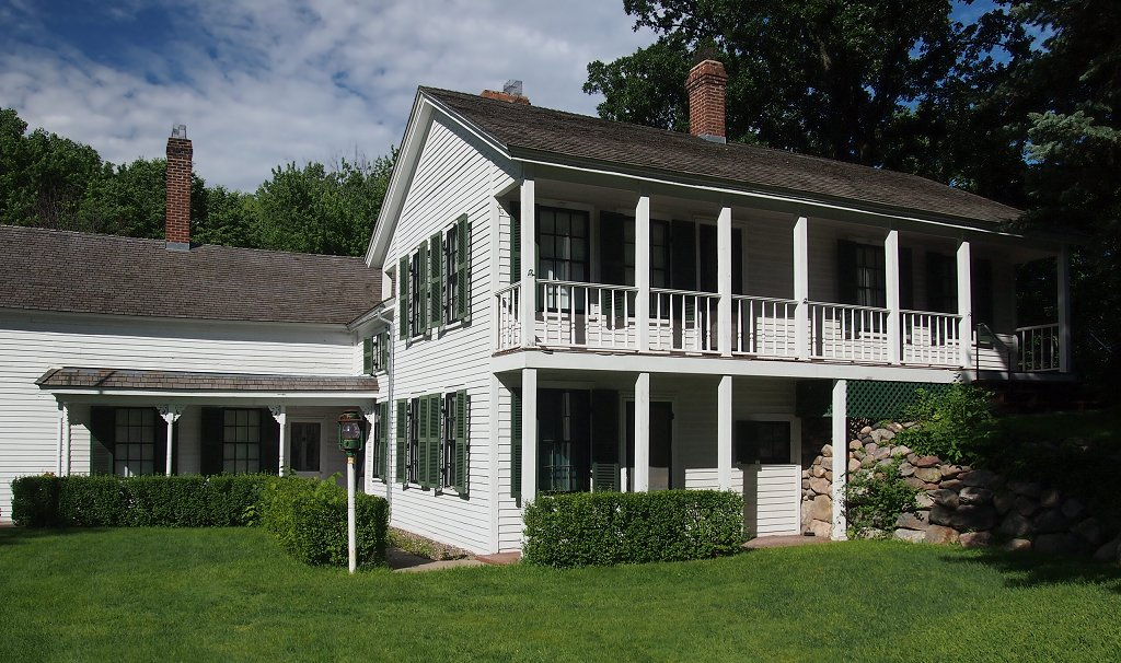 Ames–Florida–Stork House, 8131 Bridge St., Rockford, Minnesota, USA. Viewed from the northeast.